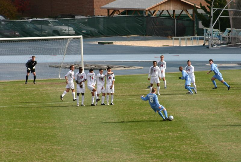 SMU Mustangs at North Carolina Tar Heels (Fetzer Field, Chapel Hill, North Carolina).